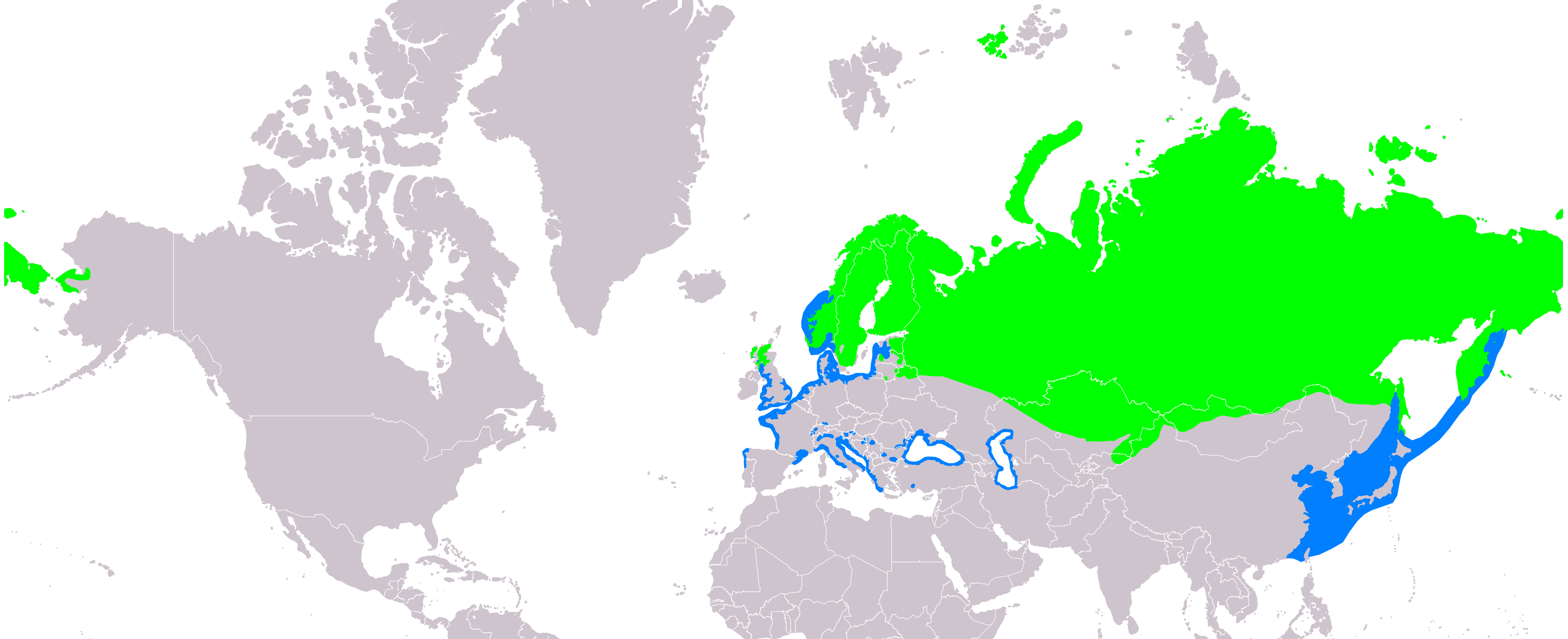 Distribution map of arctic loon (Gavia arctica) according to IUCN version 2019-2 ; key: Legend: Extant, breeding (#00FF00), Extant, non-breeding (#007FFF)